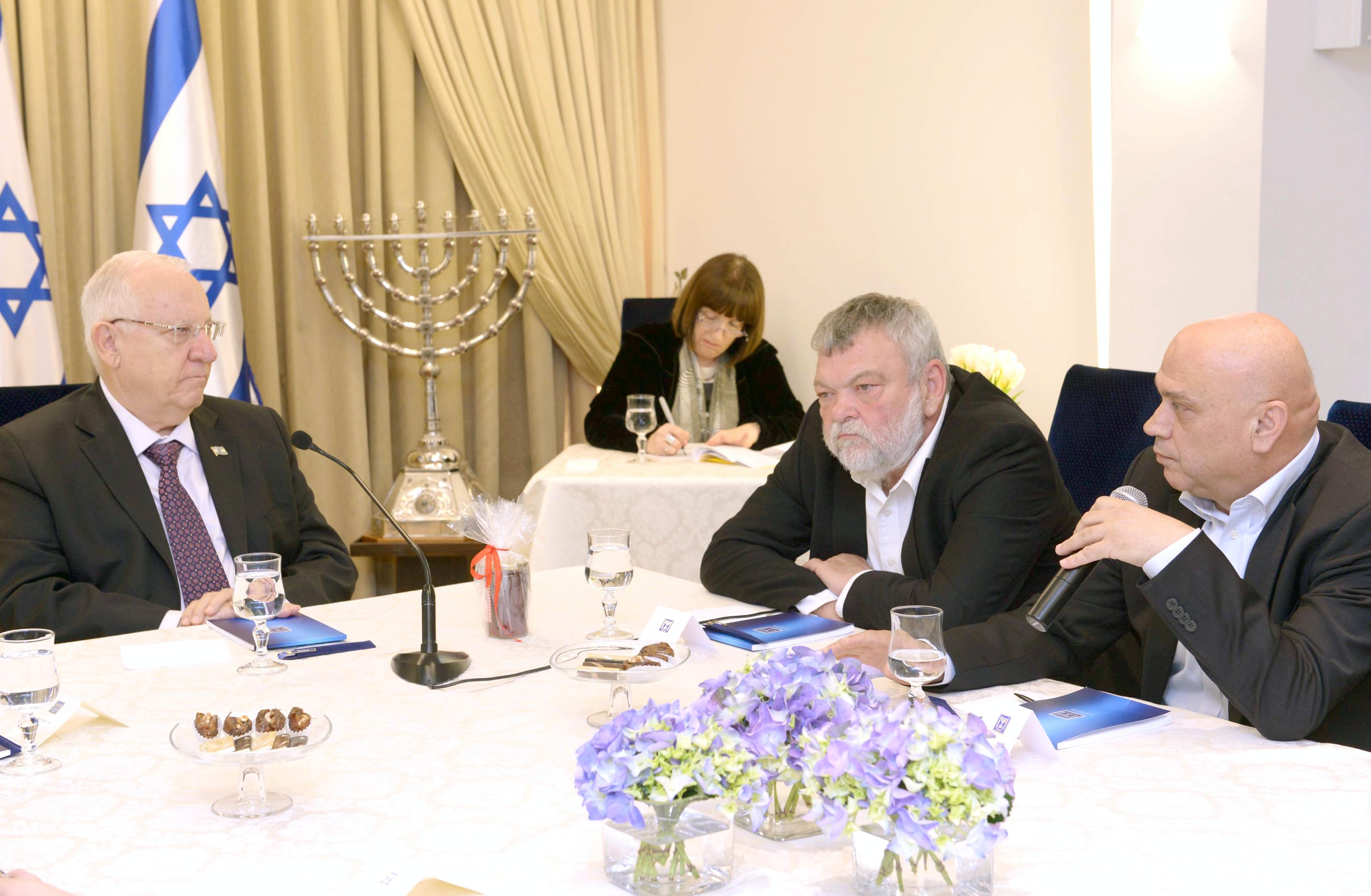 President of Israel Reuven Rivlin (on the left) with Meretz party representatives MK Ilan Gilon (second from the right) and MK Issawi Frej (on the right)